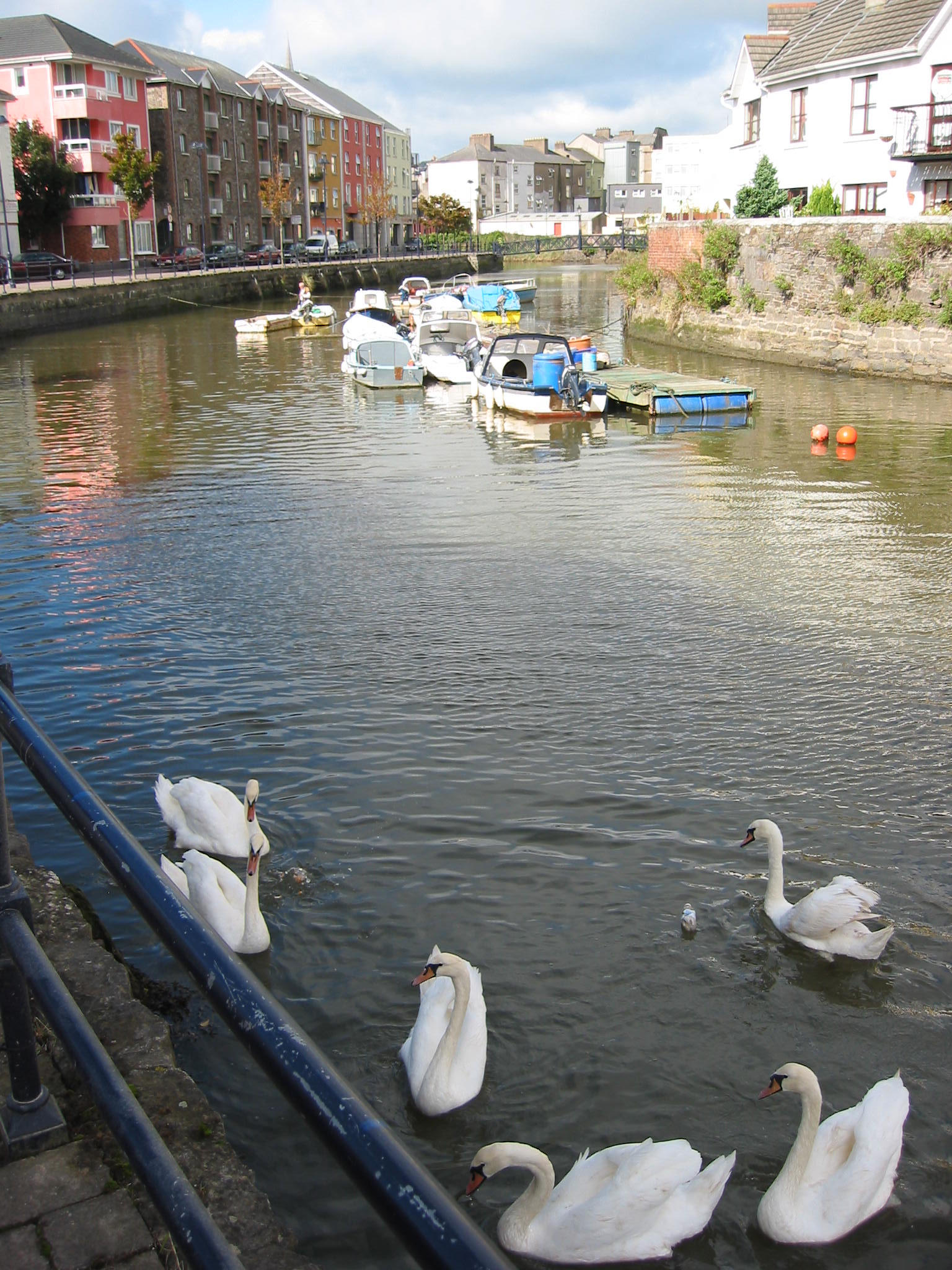 Swans at Scotch Key in Waterford, County Waterford. Photo taken October 2006